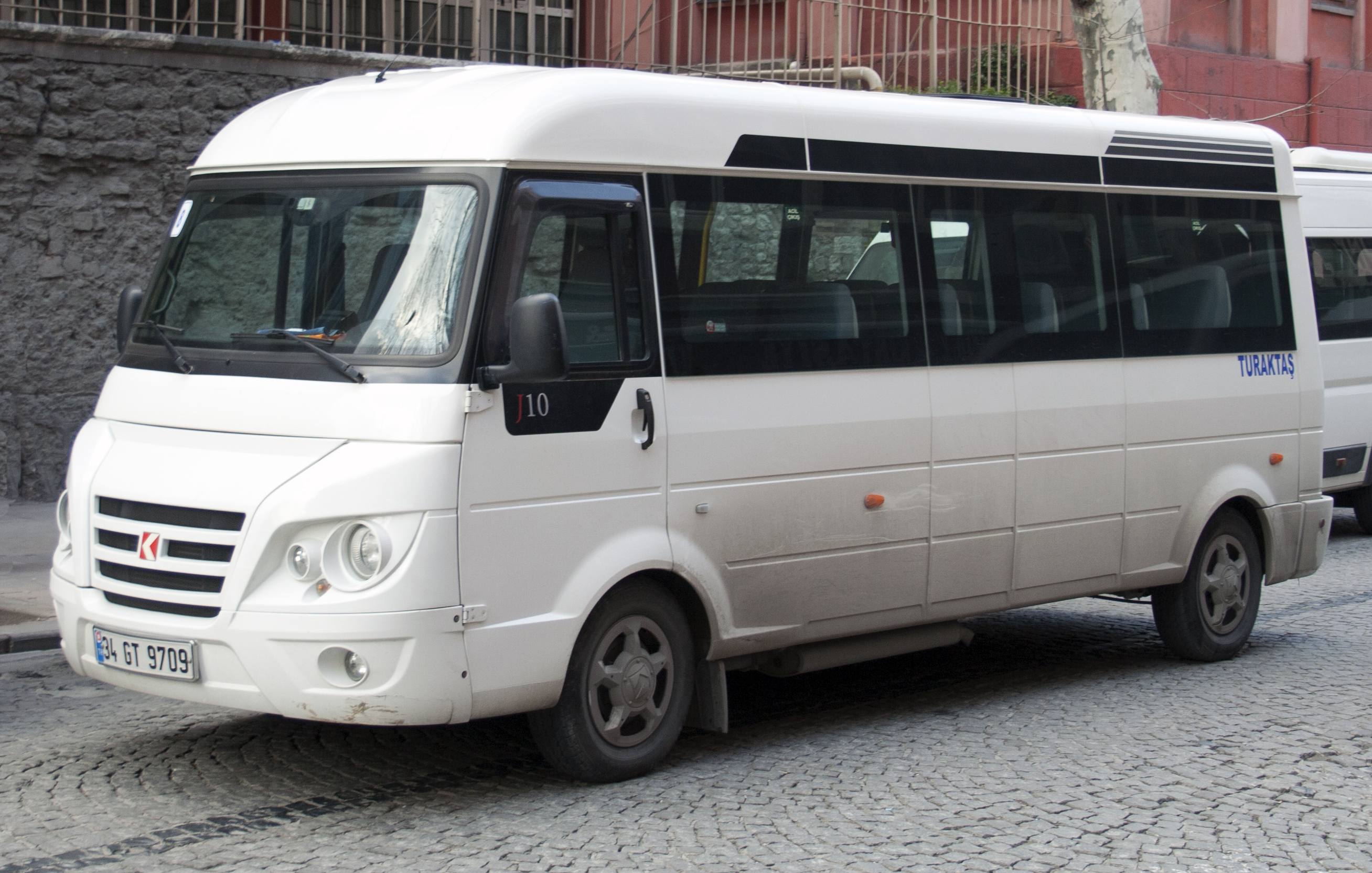 Karsan J10 school bus. This is the locally developed successor to the Karsan-built Peugeot J9.